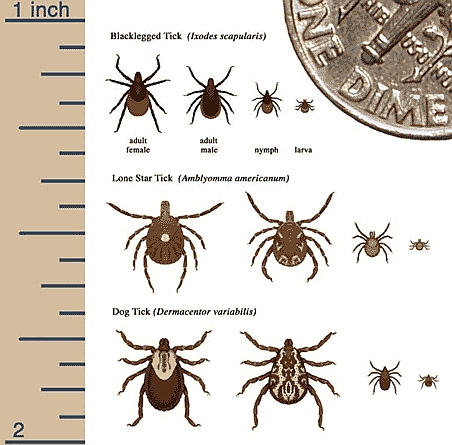 Deer ticks 3 species